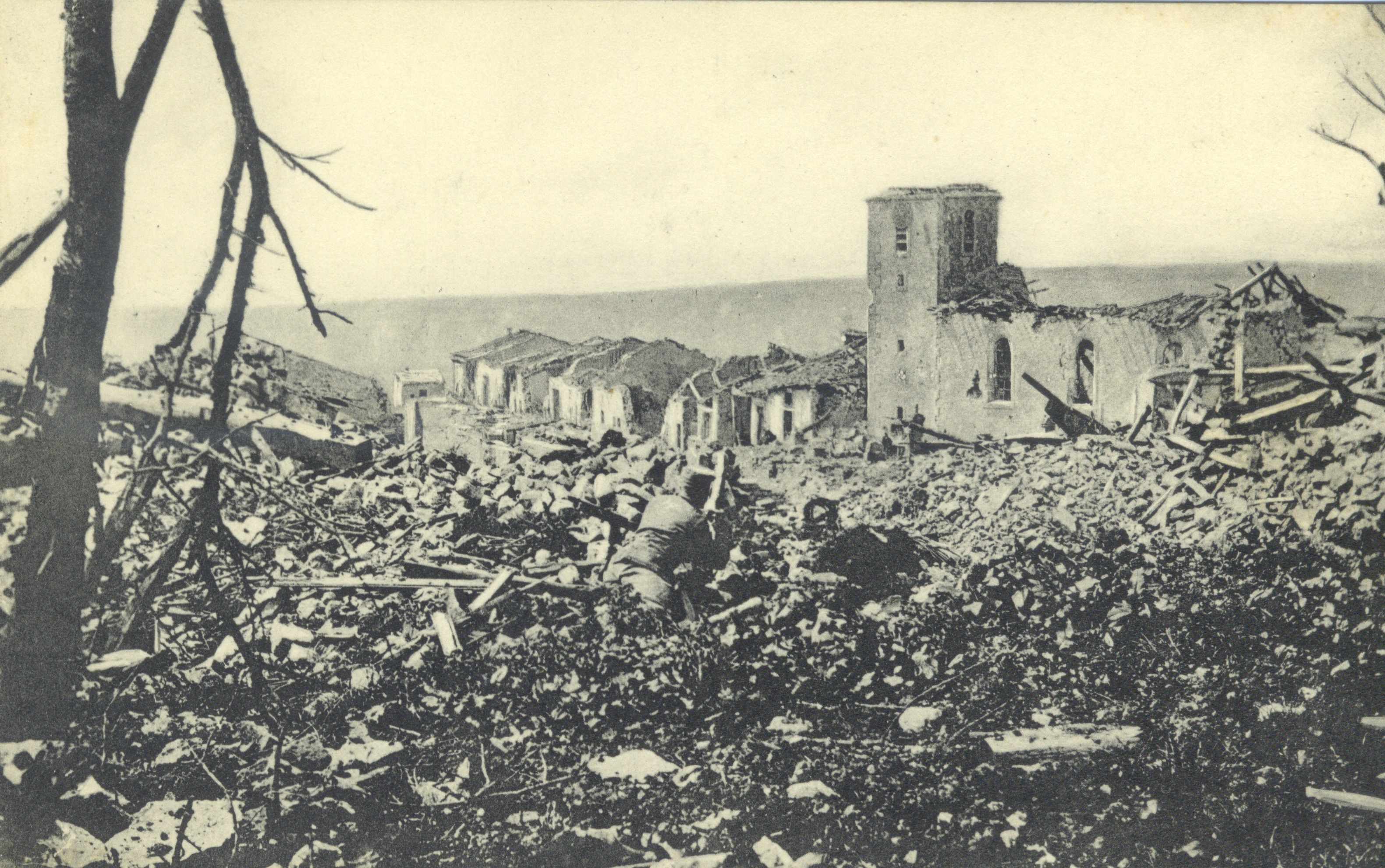 Persistent URL: Subject: World War I; Lost architecture; War damage; Views; France--Beaumont; miami digital collections; bowden postcard collection